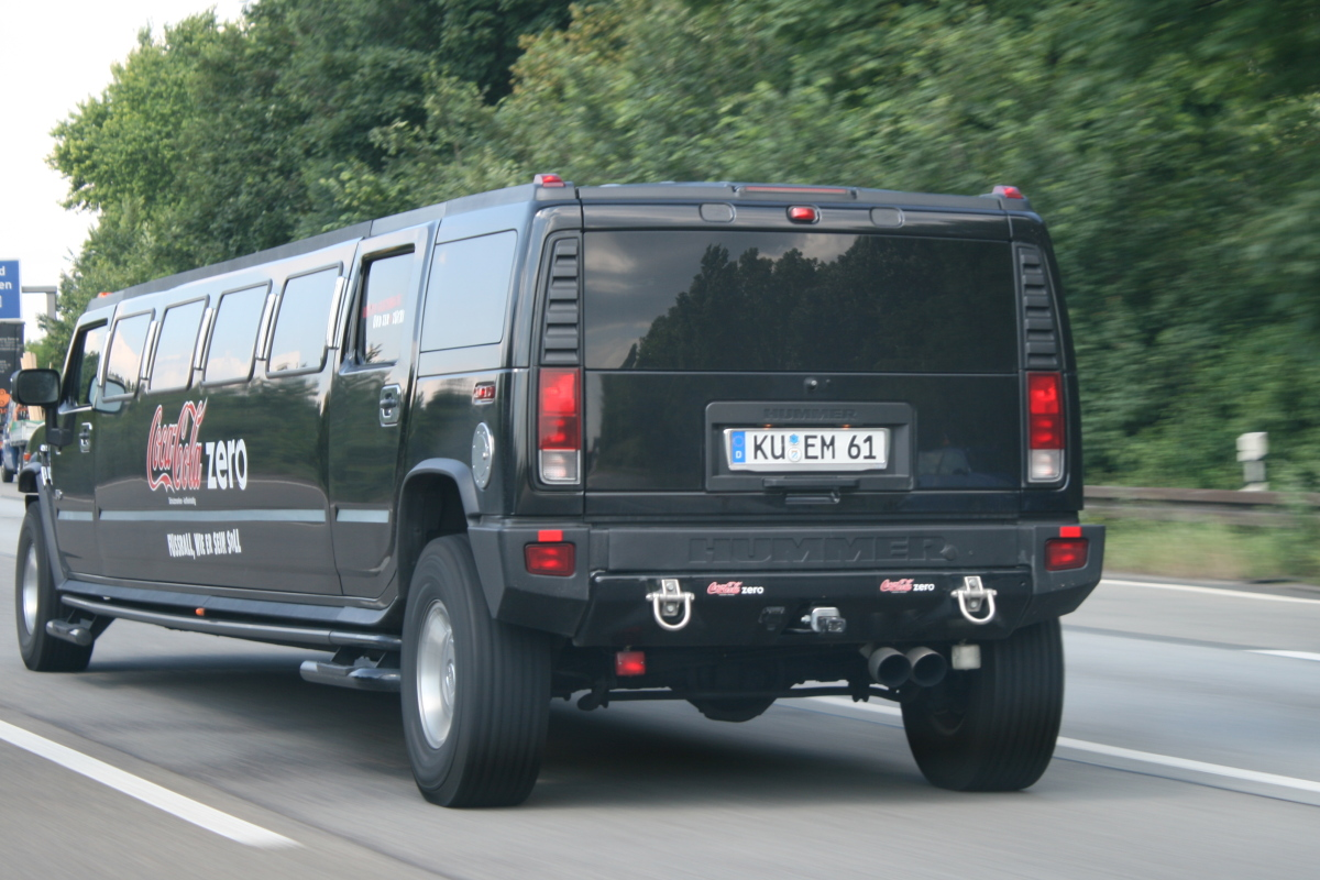 Hummer H2 Limousine, seen in Germany (unusual).